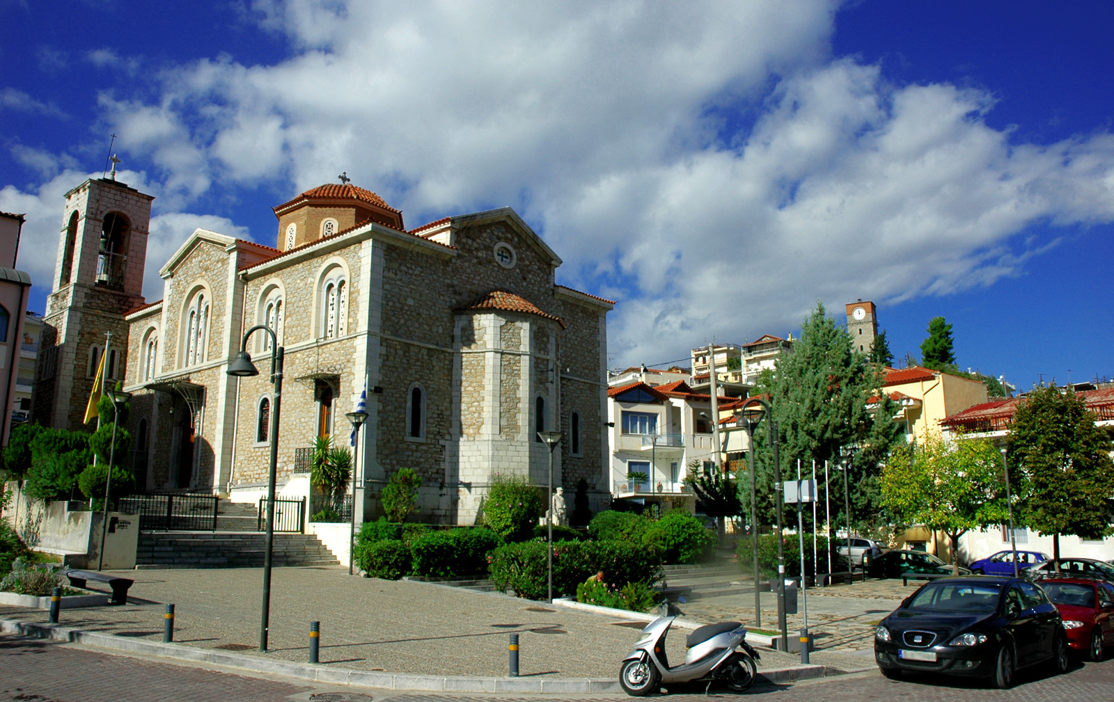 The Cathedral of Livadia, Greece